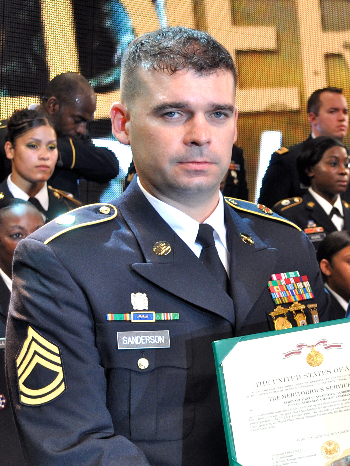 25m rapid fire pistol shooter SFC Keith Sanderson receives the Meritorious Service Medal from GEN Austin. U.S. Vice Chief of Staff of the Army, GEN Lloyd Austin III, awarded the Meritorious Service Medal and the Superior Civilian Service Medal to members of the World Class Athlete Program and the Army Marksmanship Unit who competed in the 2012 Summer Olympic Games in London, joined by LTG Mike Ferriter. The ceremony took place after the Soldier Show performed at Fort Belvoir Sept. 7 at 7:30 p.m.